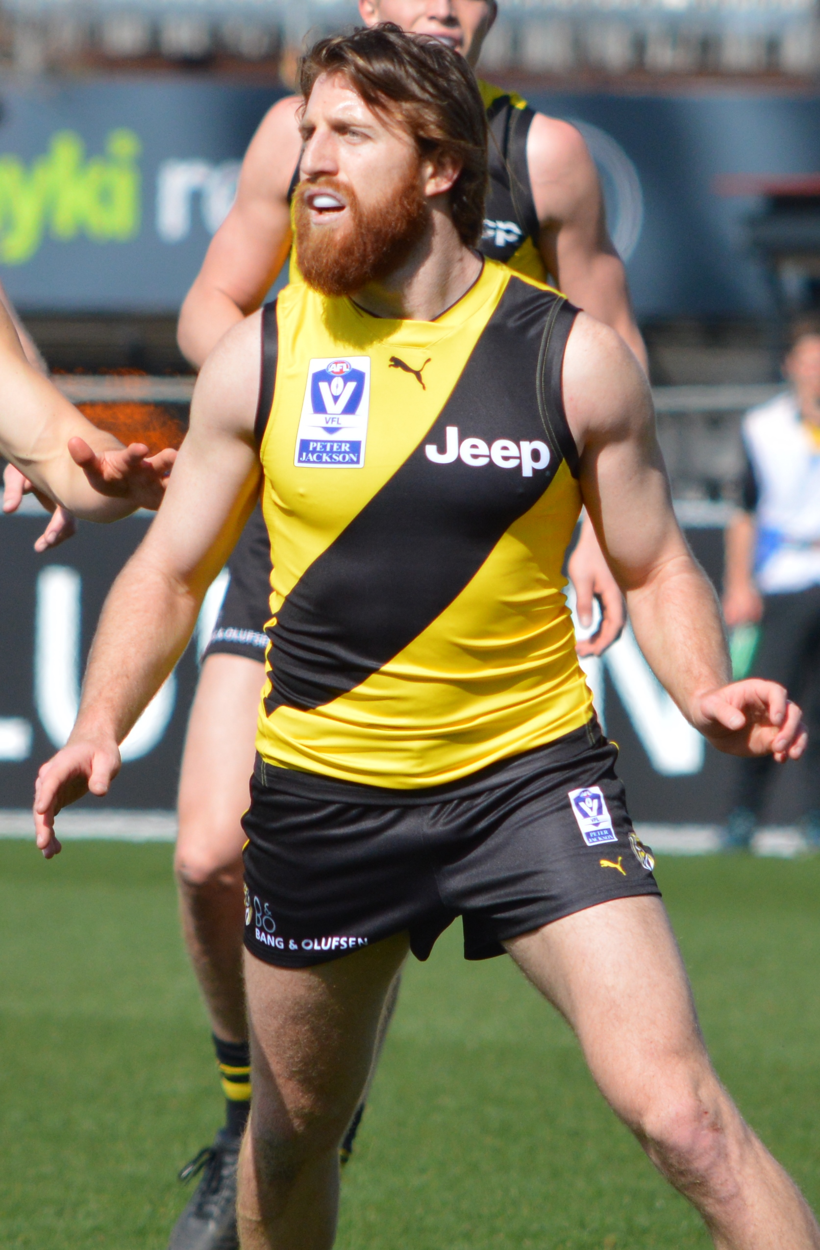 Reece Conca during a VFL game in August 2017